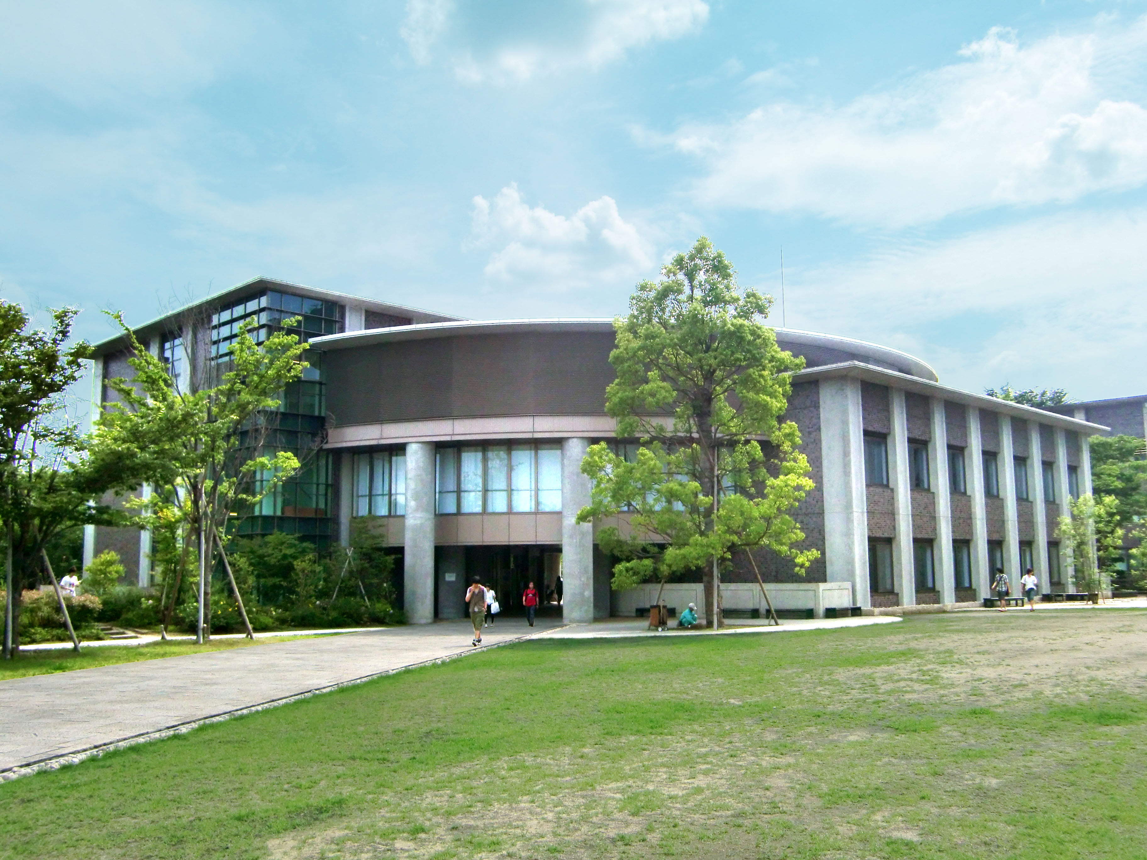 Ritsumeikan University Jukokan Hall, 56-1 Tojiinkitamachi Kita-ku Kyoto-City JAPAN.